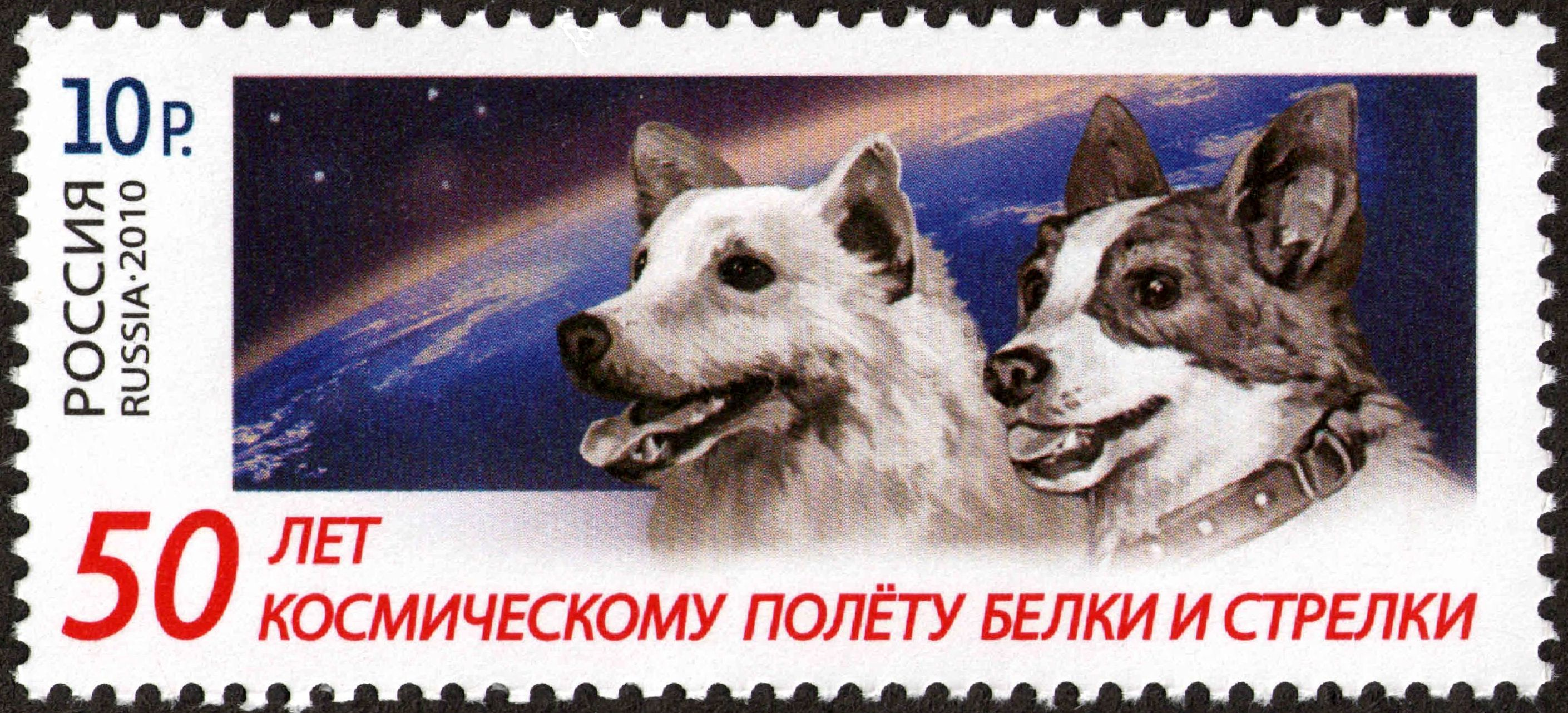 50th anniversary of the space flight of Belka and Strelka. The stamp of Russia, 12 Rubles, 29 October 2010, PTC Marka Catalogue # 1455, Michel # 1687.The Soviet space dogs Belka (on the left) and Strelka against the background of the Earth and the starry sky.